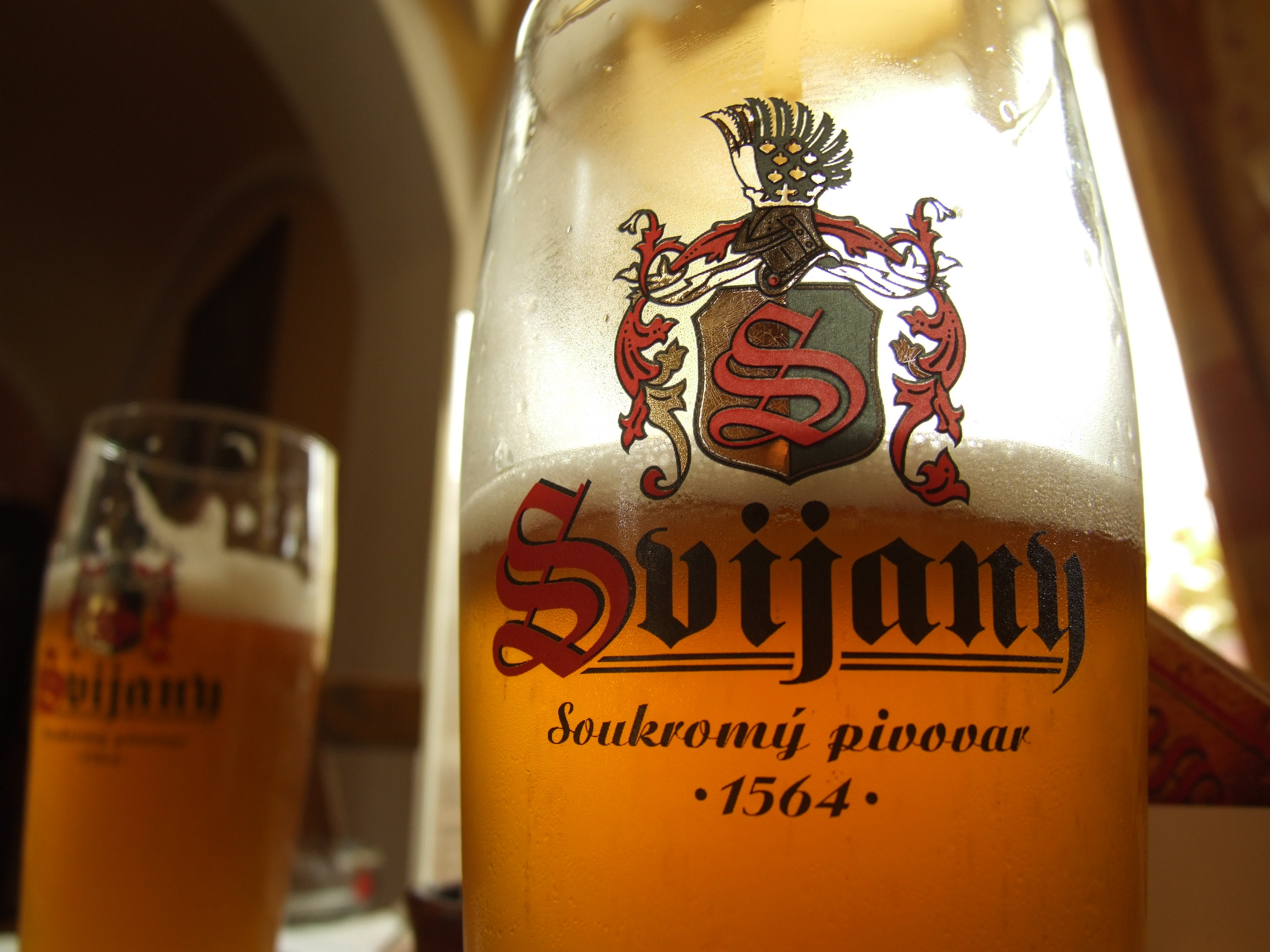 A glass of Svijany beer Author: Mohylek 16:20, 12 September 2006 (UTC)